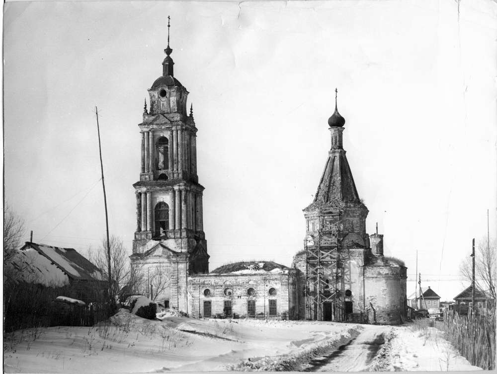 Nikita church, Elizarovo village, Pereslavl district, Yaroslavl province, Russia